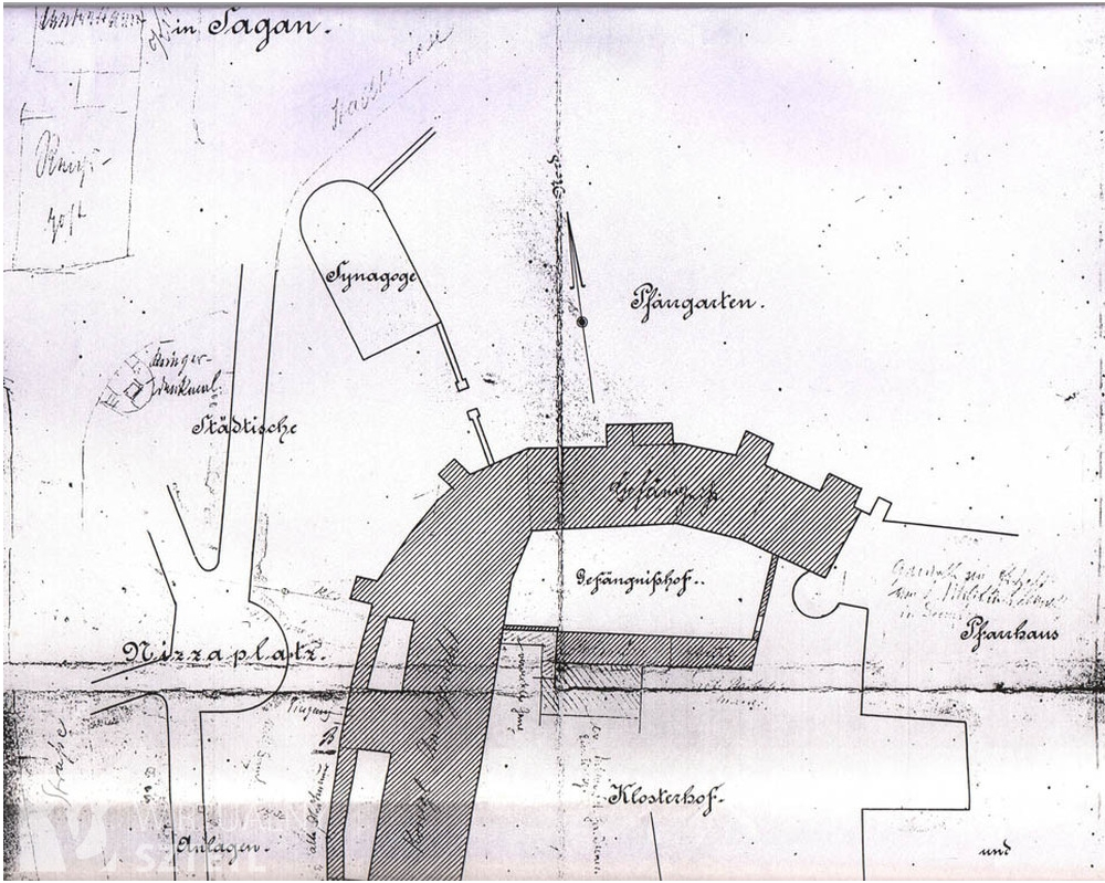 Drawing of 1857 showing the land and the bastion purchased by the Jewish community to establish their synagogue. Synagogue of Sagan (now Żagań), built in 1857 from a bastion, and destroyed by the nazis during Kristal Nacht (9 to 10 nov 1938)